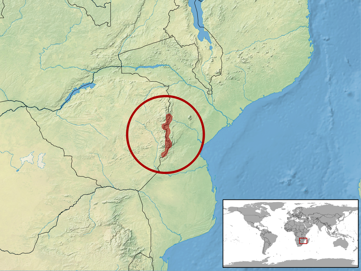 geographic distribution of Rhampholeon marshalli (Native: Zimbabwe)